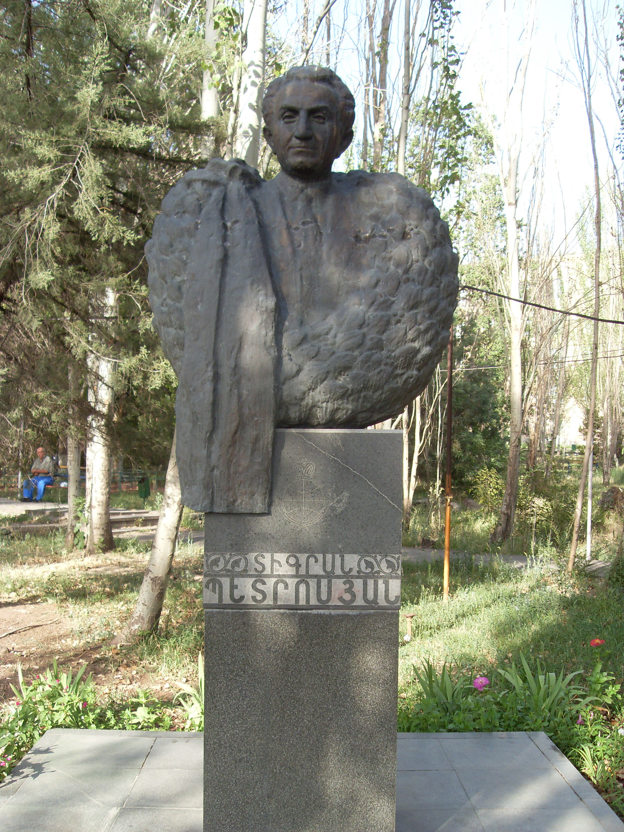 Chess 9th world champion Tigran Petrosian statue, Yerevan, 1989 6/151.1